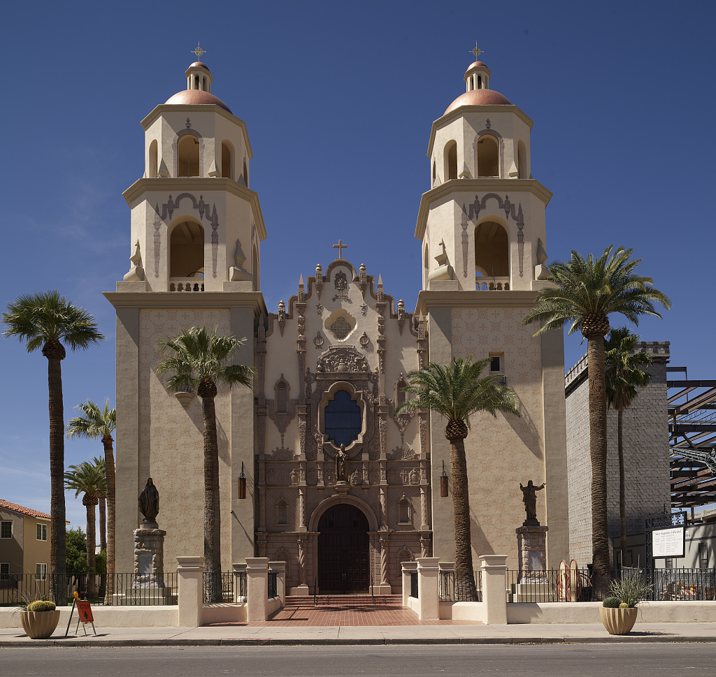 Title: The Cathedral of Saint Augustine, the mother church of the Roman Catholic Diocese of Tucson, Arizona. Initial work on the structure was completed in 1897; the original plans called for a Gothic structure, but the spires were never completed. It was not until 1928 that the brick structure was transformed into its present Mexican baroque form, including the cast stone facade, which was inspired by the Cathedral of Queretaro, Mexico Physical description: 1 photograph : digital, tiff file, color. Notes: Purchase; Carol M. Highsmith Photography, Inc.; 2018; (DLC/PP-2018:005).; Forms part of Carol M. Highsmith's America Project in the Carol M. Highsmith Archive., Library of Congress, Prints and Photographs Division.; Title, date and keywords based on information provided by the photographer.